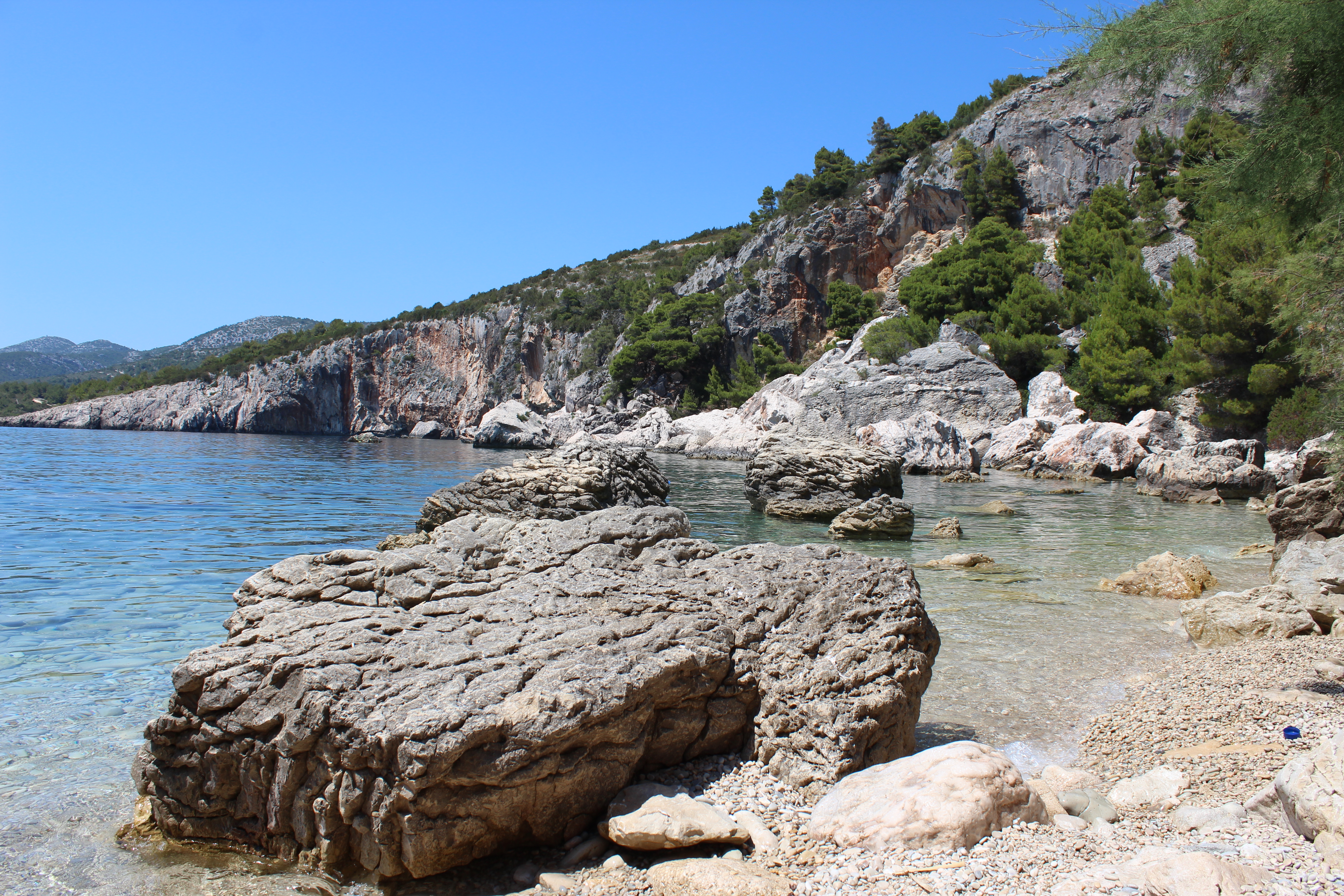 Zarace beach on Havr